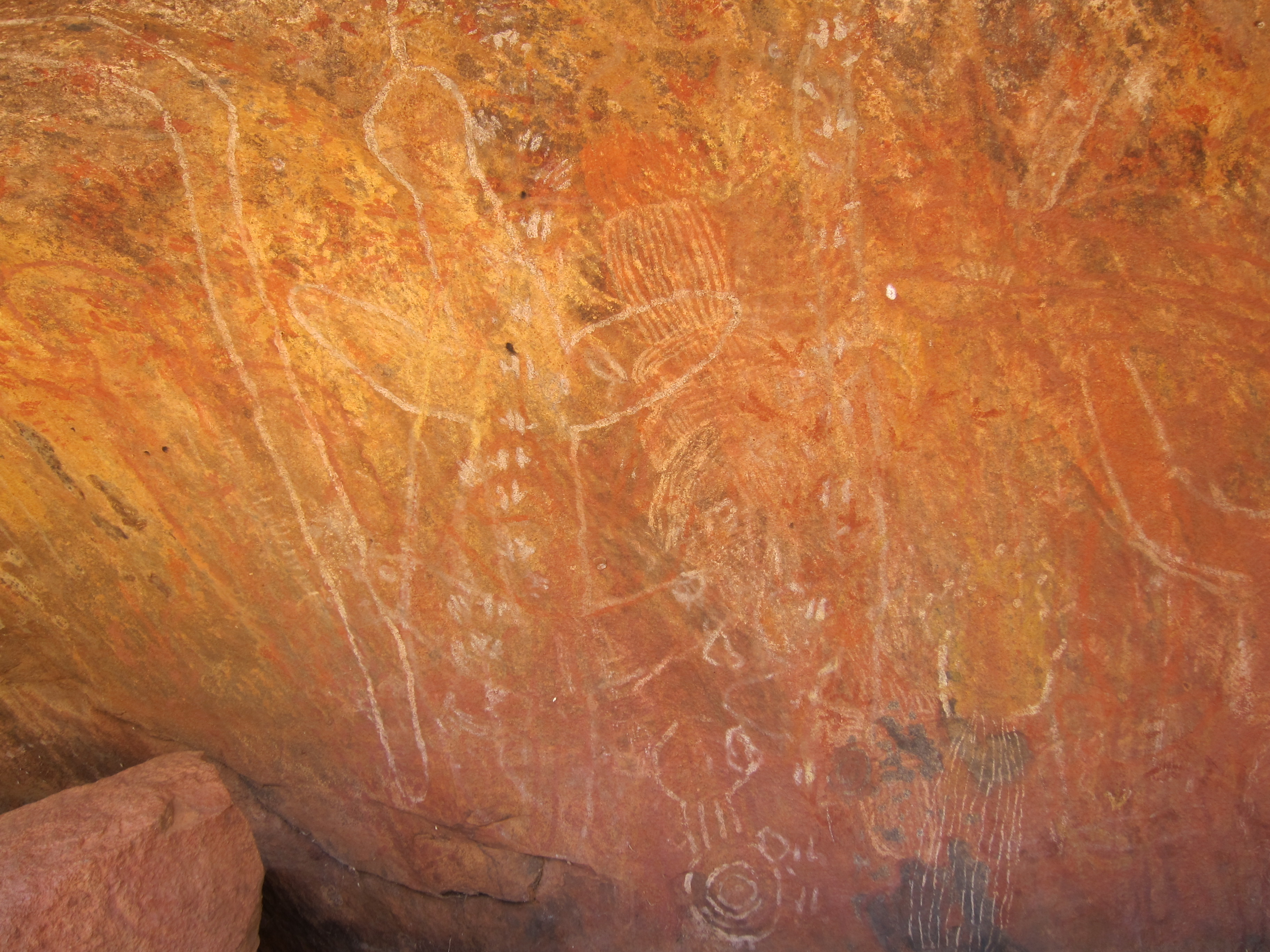 Petroglyphs on Uluru (Ayers Rock)